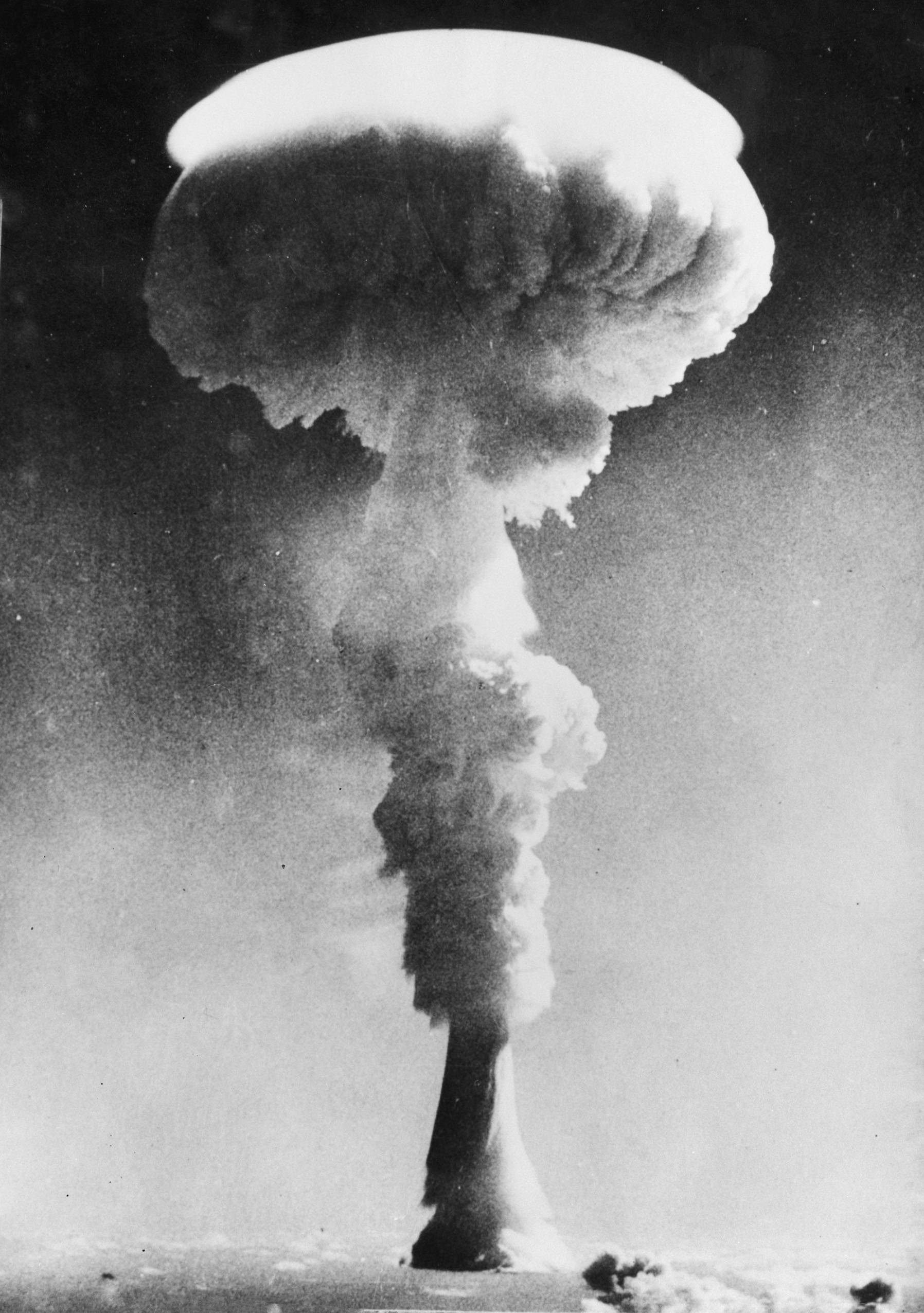 The Grapple 1 nuclear test on 15 May 1957. Hailed as Britain's first hydrogen bomb test, it was in fact a technological failure.